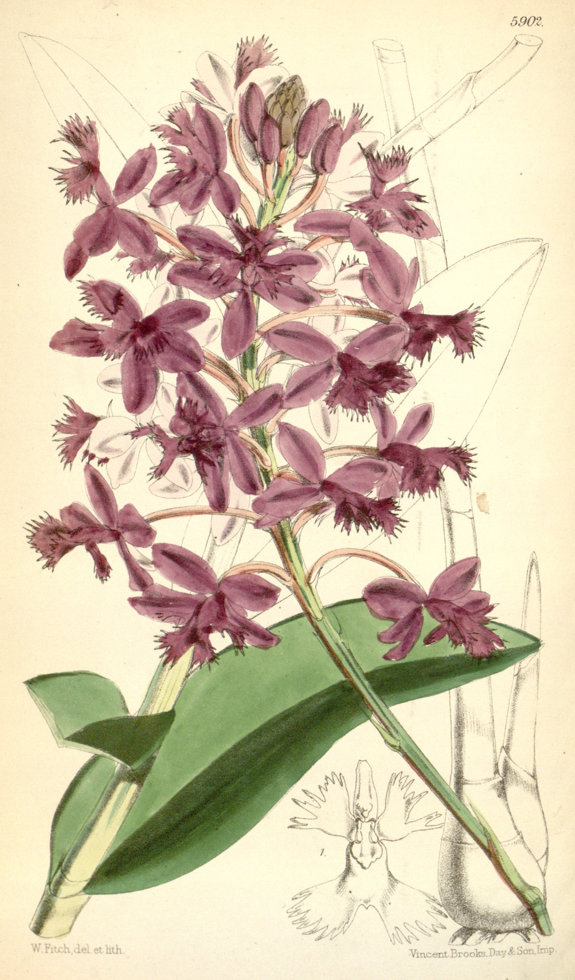 Illustration of Epidendrum jamiesonis (as syn. Epidendrum evectum)